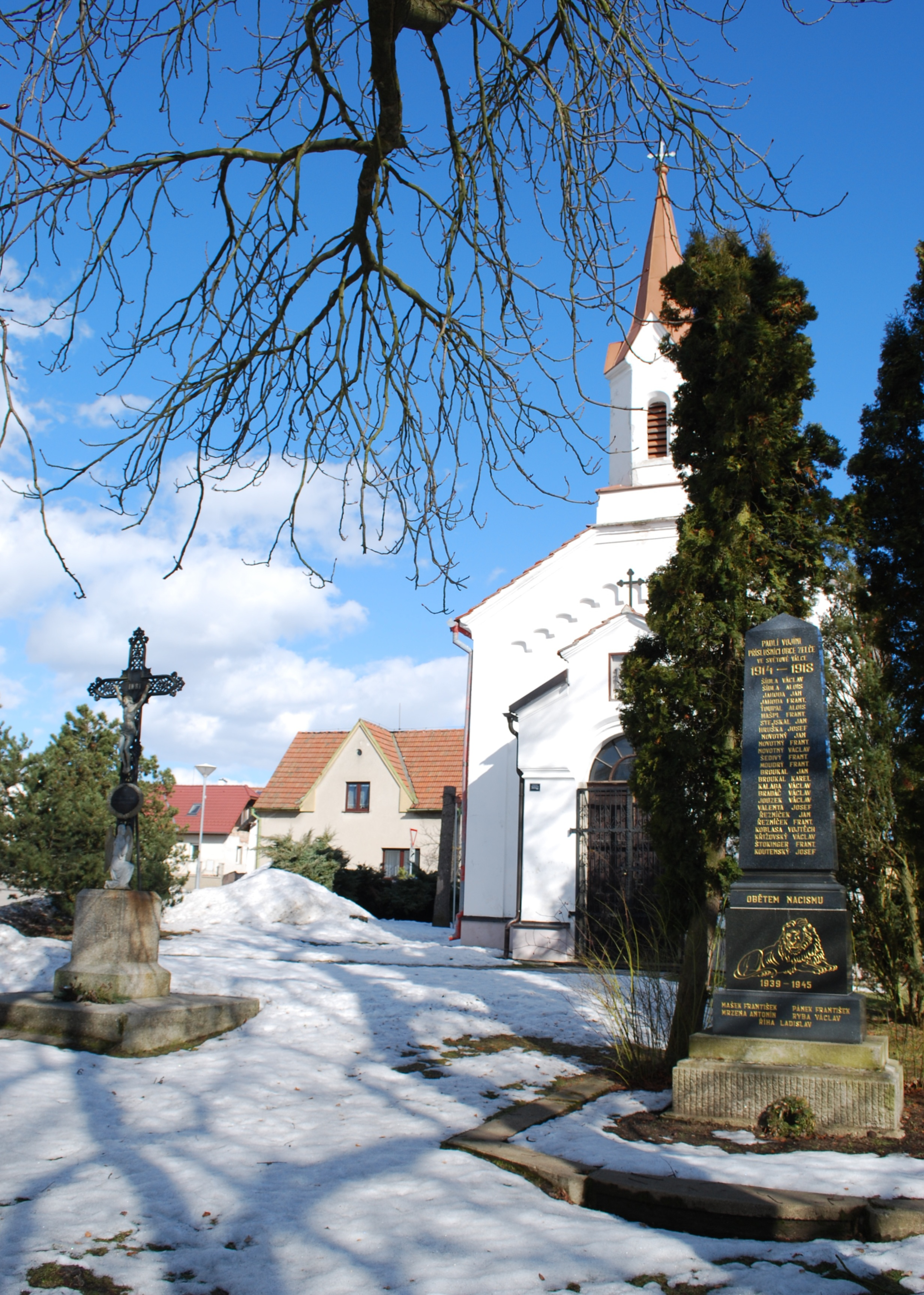 Želeč village in Tábor District, Czech Republic This photograph was taken within the scope of the 'Czech Municipalities Photographs' grant.